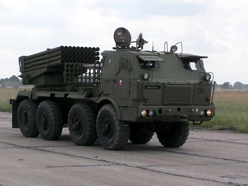 Armored czech Tatra 813 truck as rocket launcher RM-70